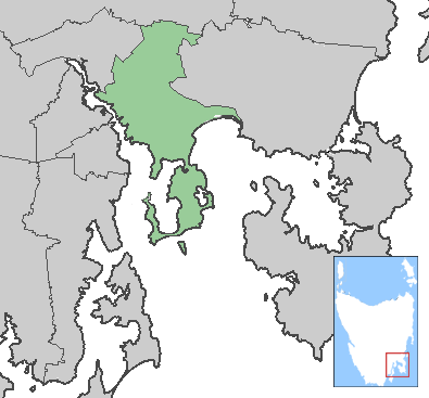 Carte de City of Clarence, Tasmanie, australie